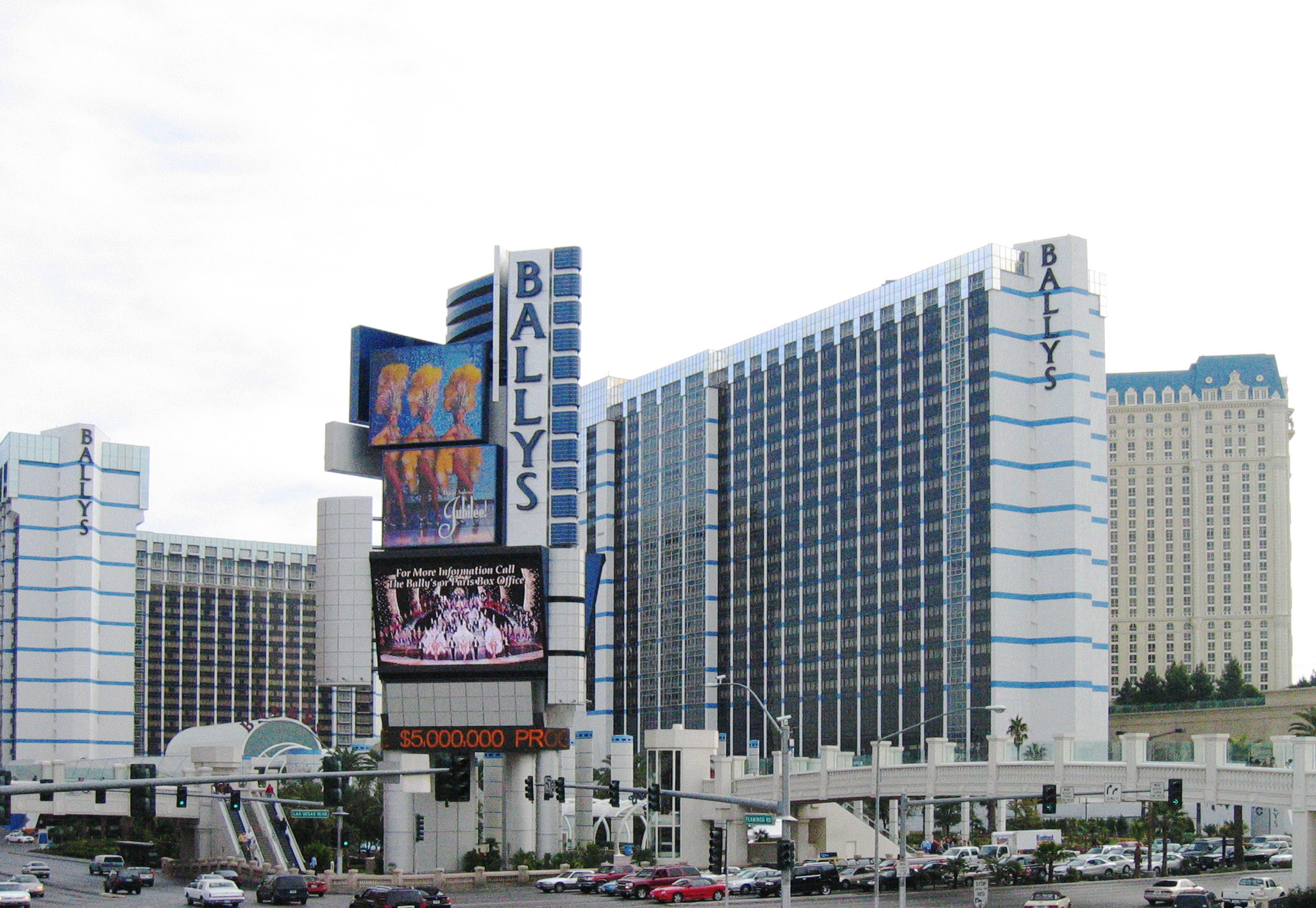 Bally's Hotel and Casino. Paradise, NV, USA – perspective corrected and cropped version of Image:Ballyshotelcasino-lv.jpg.